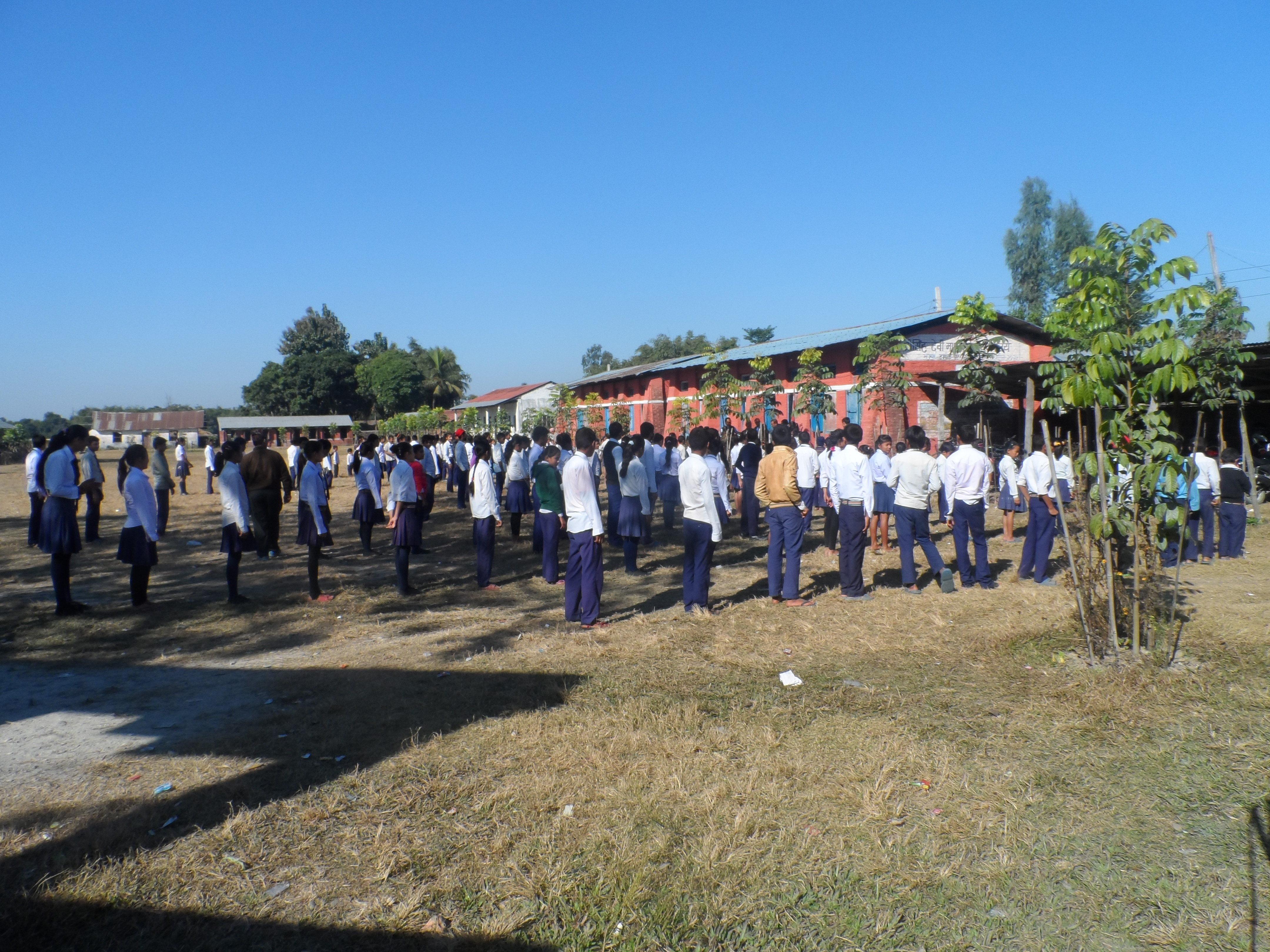 It is a photo of Shree Singh devi higher secondary school. Taken on assembly time (10:15)